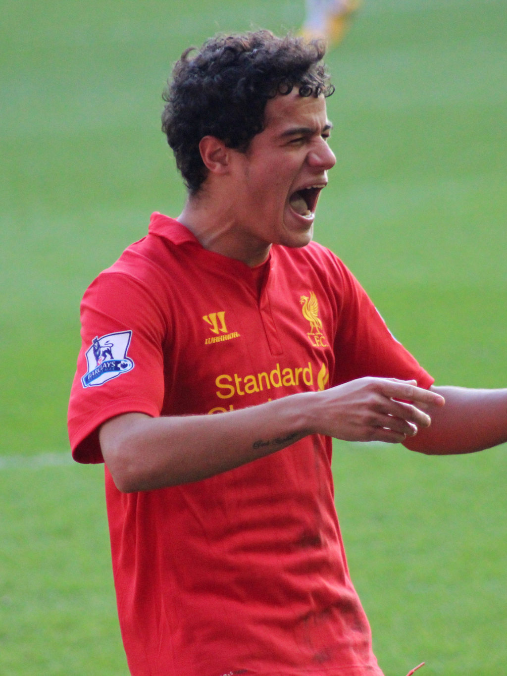 Philippe Coutinho playing for Liverpool FC against Swansea at Anfield Road on 17 February 2013.